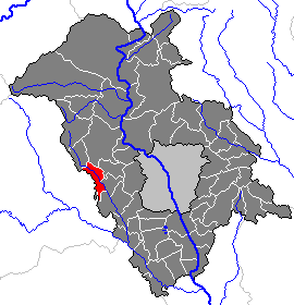 This map shows the area of the Gemeinde (municipality) Sankt Bartholomä in the Bezirk (district) Graz-Umgebung, Styria, Austria.